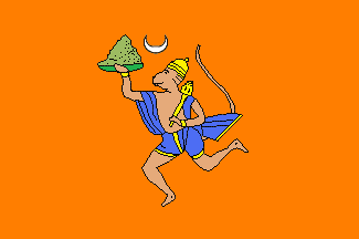 Flag of Kanker State